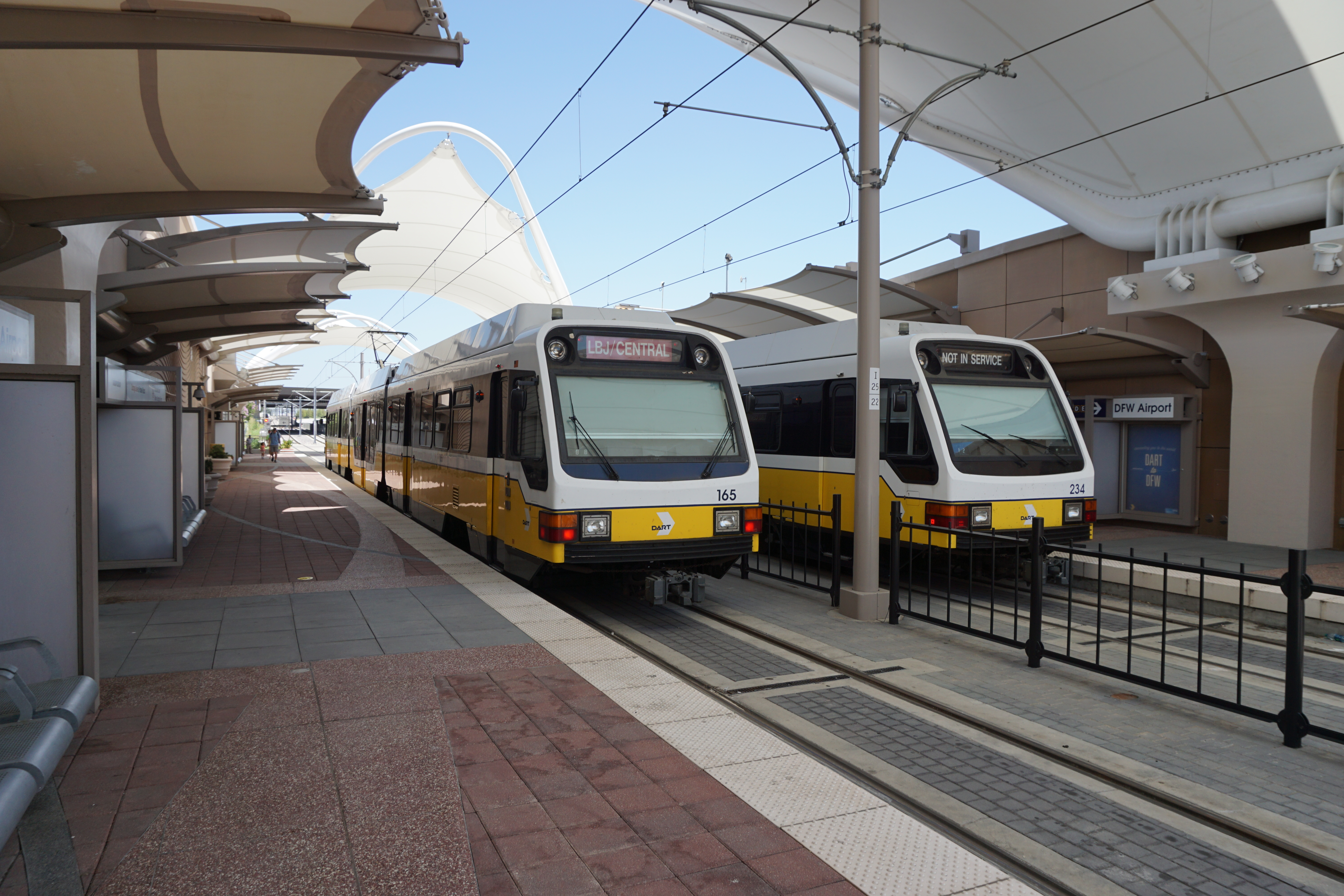 A DART Light Rail Orange Line train at DFW Airport Station at Dallas/Fort Worth International Airport in Texas (United States).